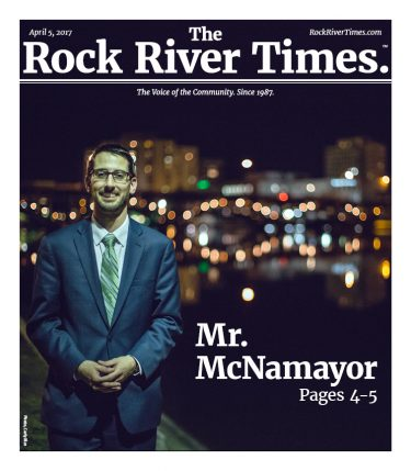 The cover of The Rock River Times newspaper, April 5, 2017, showing Rockford, Illinois mayor-elect Tom McNamara.